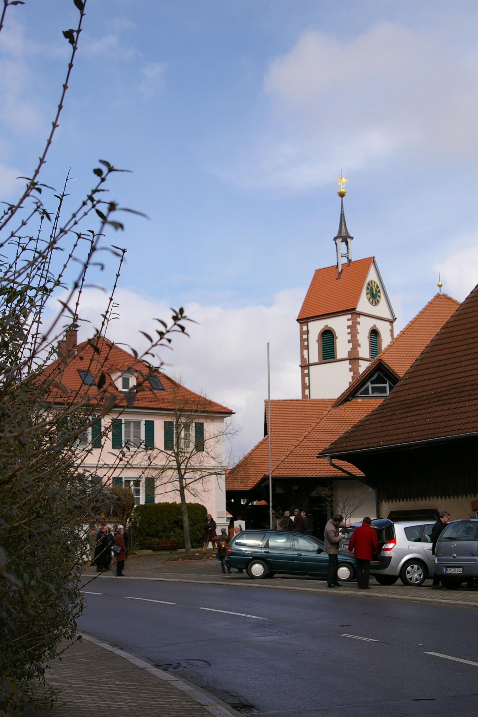 Konstanz-Litzelstetten Main Street and Catholic Church